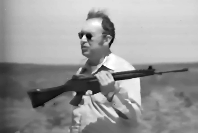 Harold Johnson of the Foreign Science and Technology Center, discusses the FN CAL rifle during a demonstration of foreign weapons at Fort Bragg, NC, for the U.S. Special Forces